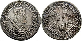 Germany, Saxony, Ernestine Line. Friedrich the Wise (1486-1525), with Johann the Steadfast and George the Bearded. AR Guldengroschen or Klappmützenthaler (41mm, 28.86 g). Struck circa 1508-1525. Bust of Friedrich right, holding sword, with four shields in legend around Confronted busts of Johann and George. Davenport 9709. This is the first coin of dollar size to be struck in reasonably large quantity. The name "thaler" was not applied to coins of this size until about 1518. Friedrich the Wise was the first ruler of modern Saxony. He founded the University of Wittenburg in 1502. In 1508 he appointed Martin Luther to a professorship in Philosophy. Later on, Friedrich was instrumental in protecting Luther from the wrath of the church and the empire by refusing to enforce the Papal bull which required Luther's writings be burned and the reformer be sent to Rome. When, in 1521, Luther was placed under the imperial ban by the diet at Worms, Friedrich had him brought to his castle for protection.